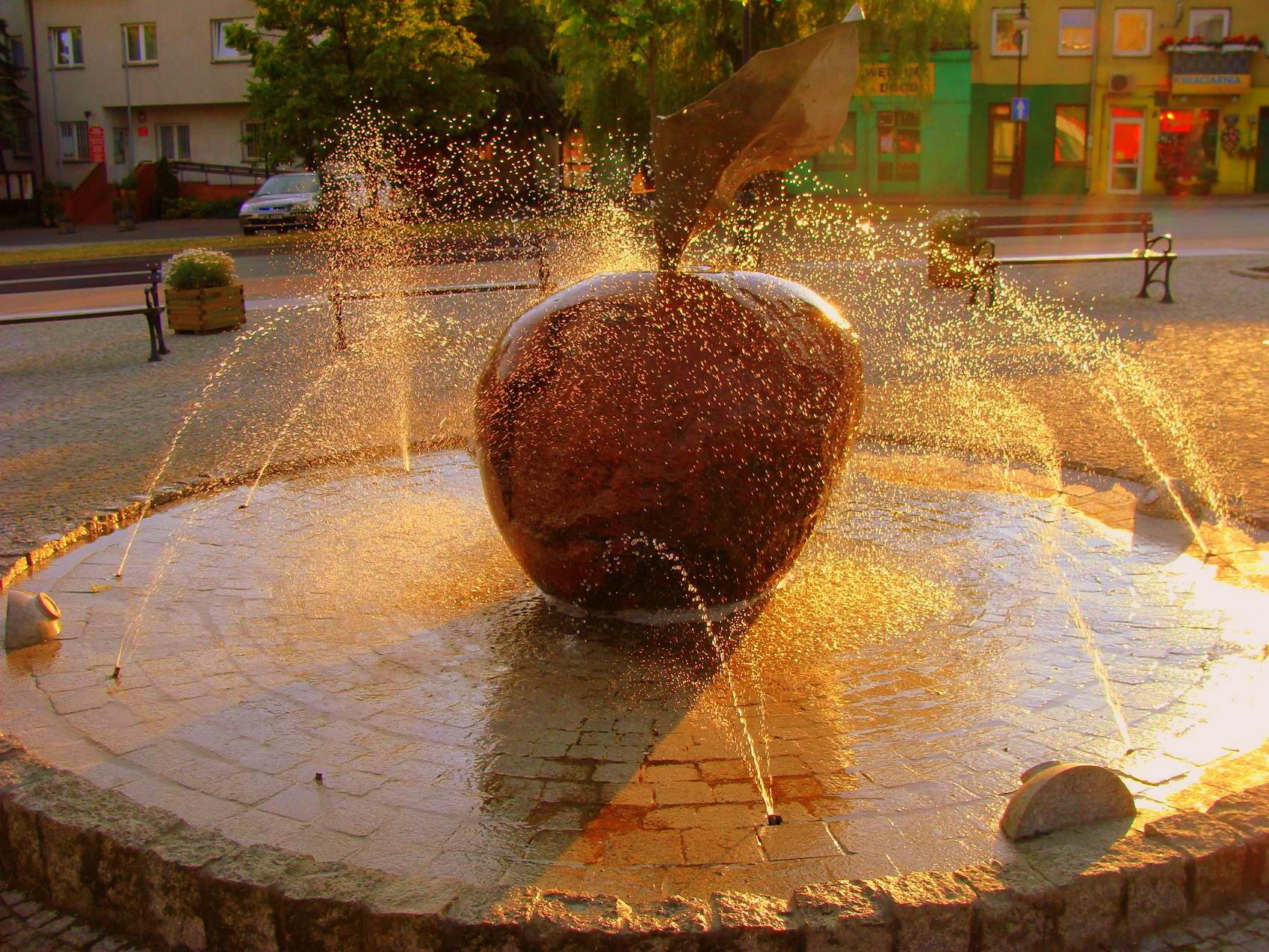 Fontanna na rynku w Tarczynie.JPG